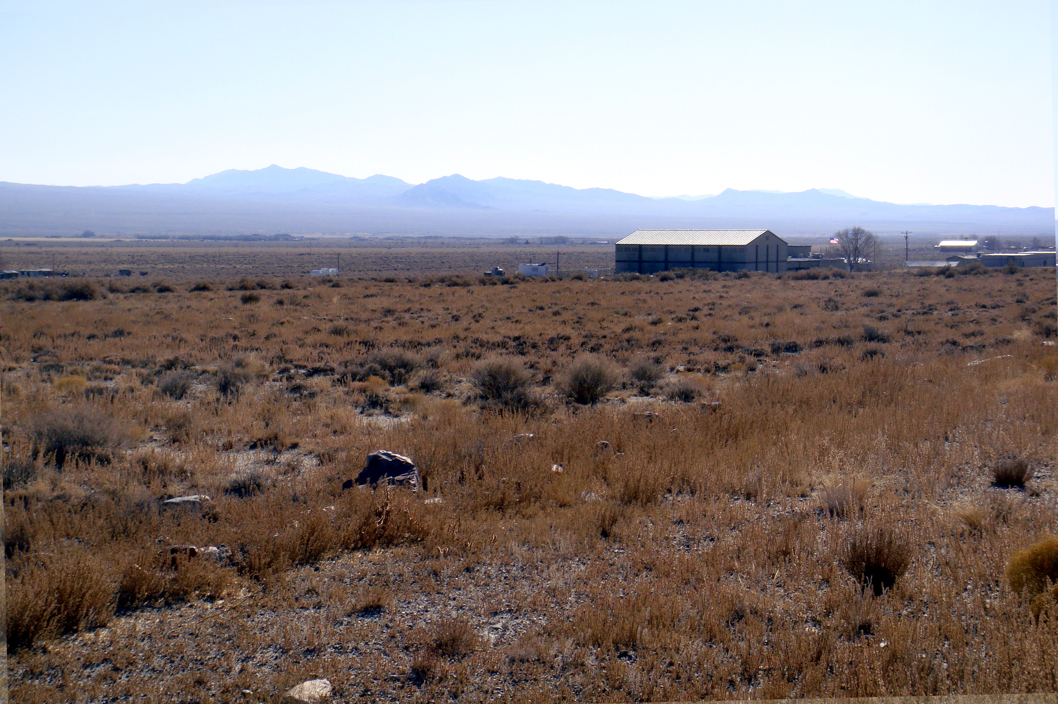 View of Partoun, Utah, looking to the southeast.